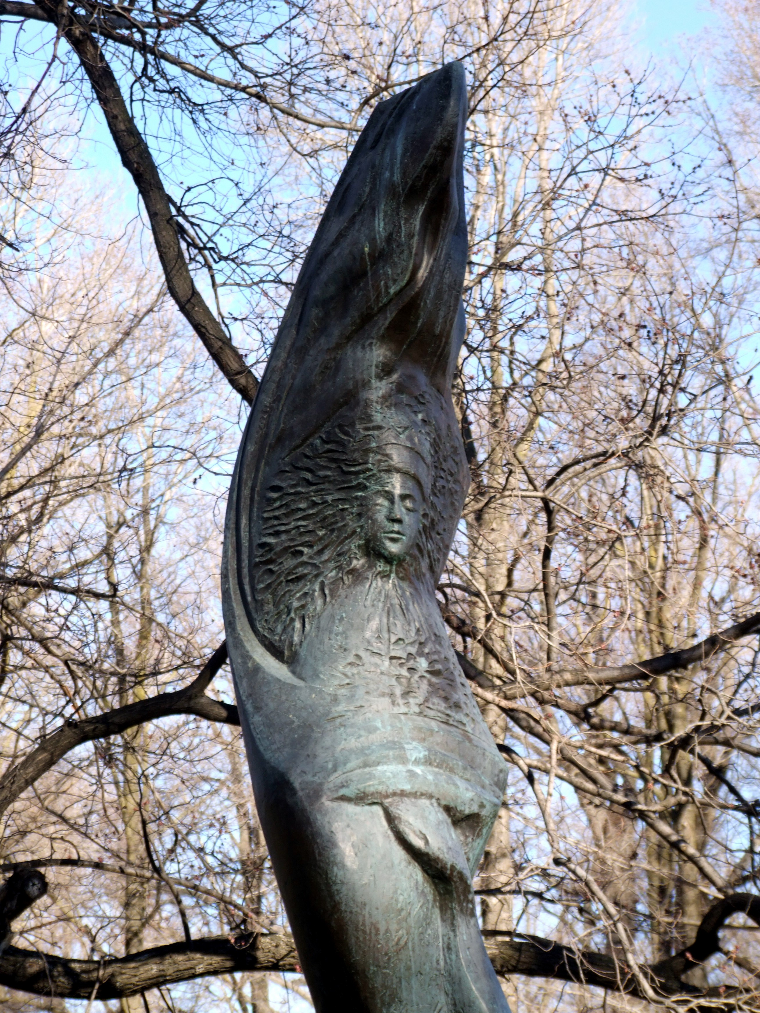 "Egle, the Queen of Serpents" at Glebe Park, Canberra